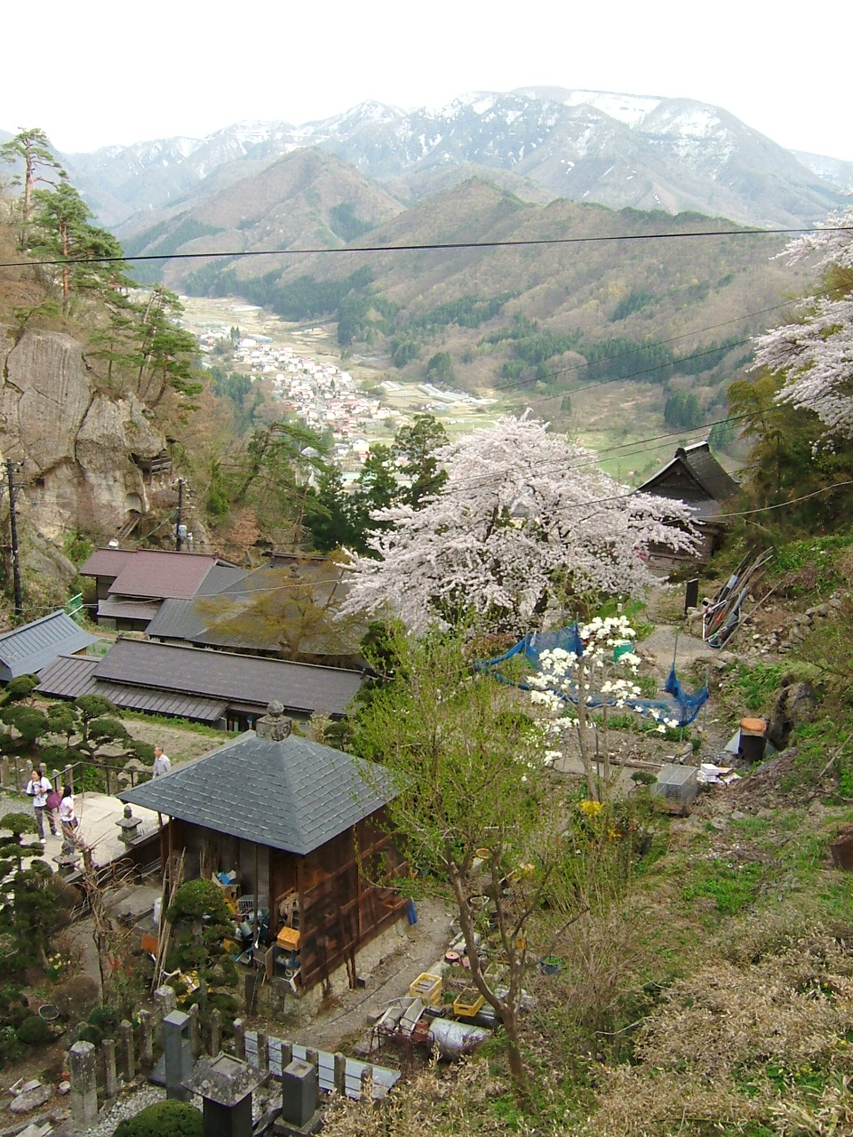 a spring-time view from near the top of Yama-dera. I took this photo with a digital camera in April 2005.